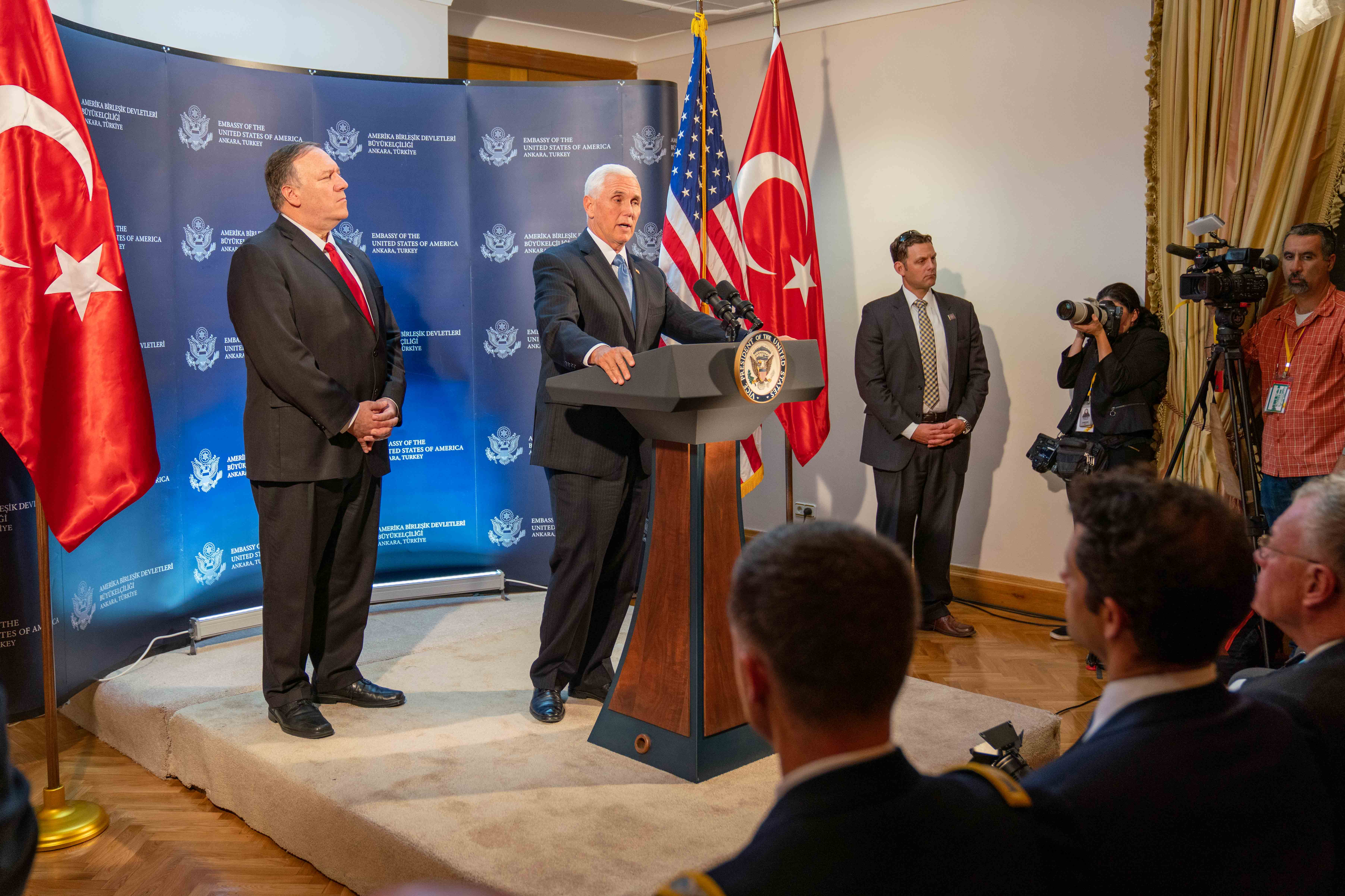 Vice President Mike Pence and U.S. Secretary of State Michael R. Pompeo at a joint press conference in Ankara, Turkey on October 17, 2019. [State Department Photo by Ron Przysucha/ Public Domain]